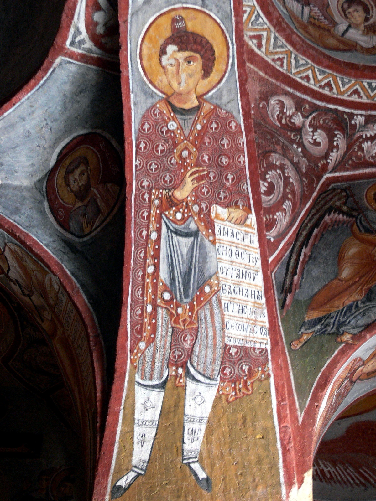 Elmali kilise ( Göreme ). Fresco ( 11th century ) of prophet Daniel.